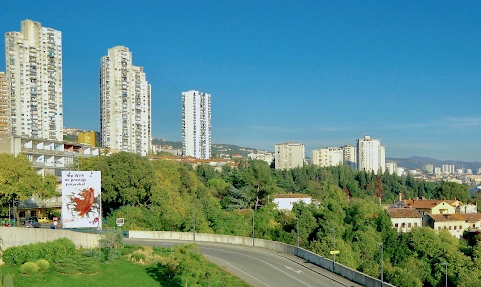 Tallest residental skyscrapers in Croatia are in Rijeka - 96m